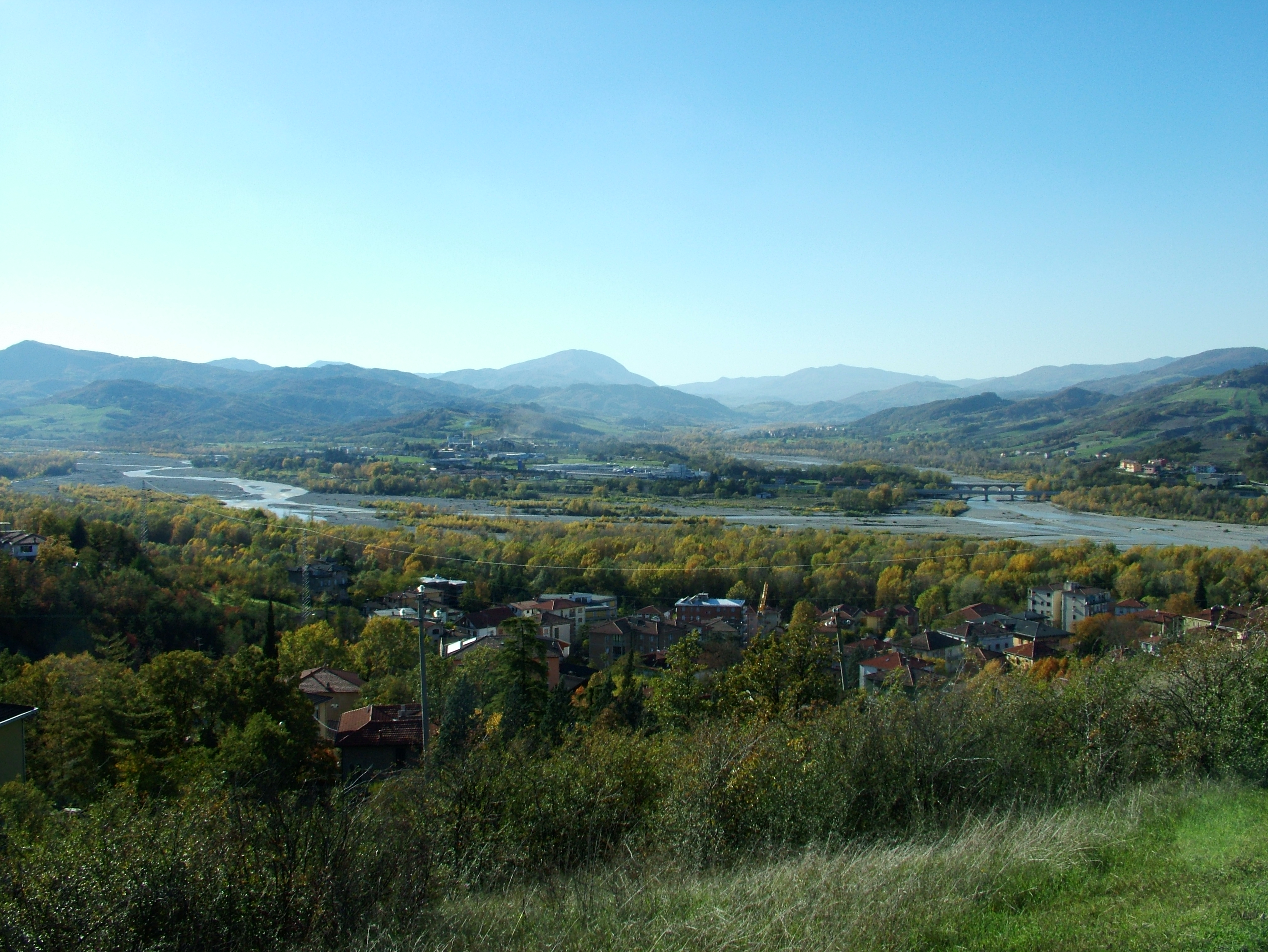 Confluence of Ceno river (right) into Taro river (left) at the height of the village of Rubbiano, municipality of Soligano, at the foreground the village of Fornovo di Taro, province of Parma, Italy.